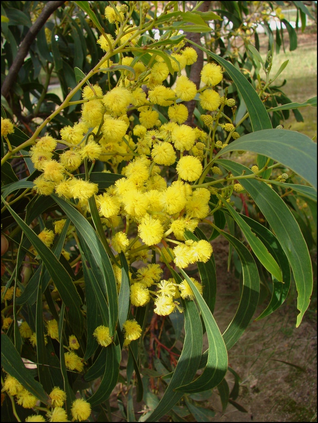 Acacia pycnantha Small tree grows to between 2 and 8 metres. As many wattlles, the tree not have true leaves but have these long, sickle-shaped (? ????? ?????) phyllodes. Photographed in Melbourne, Maranoa Gardens, Balwyn